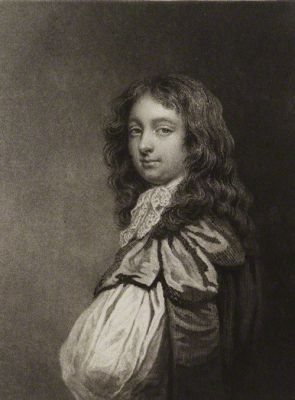 Lord Ford Grey, involved in the Rye House Plot, died 1701, Whig politician